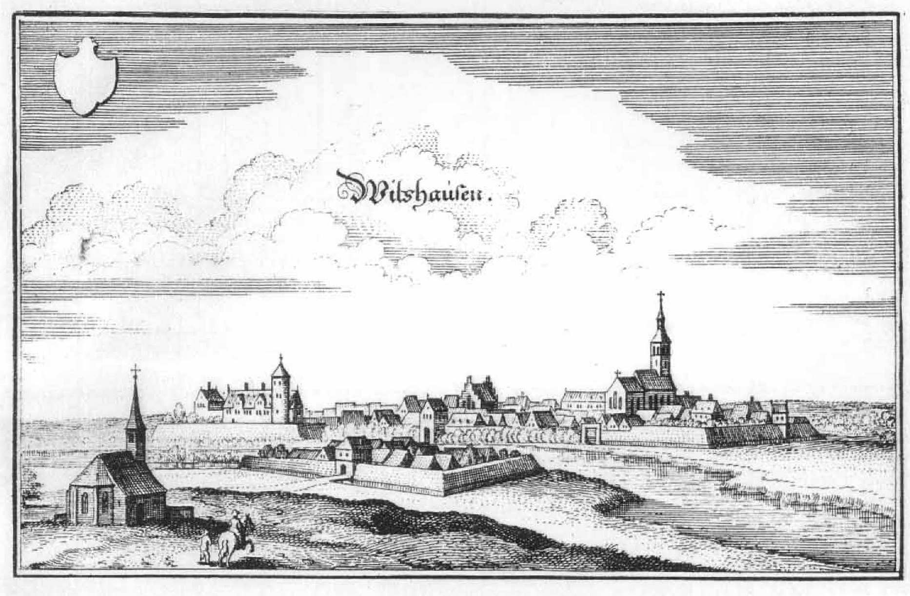 This is a scan of the historical document